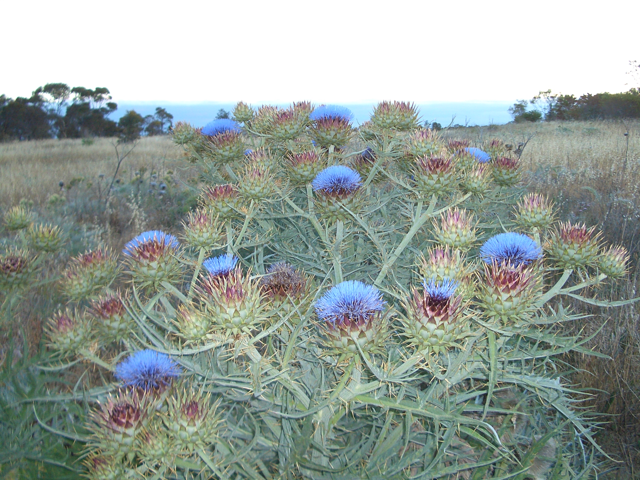 Thistles blooming blue in O'Halloran Hill area, southern suburbs of Adelaide